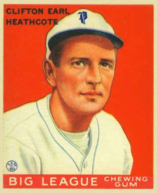 1933 Goudey baseball card of Cliff Heathcote of the Philadelphia Phillies #115. PD-not-renewed.